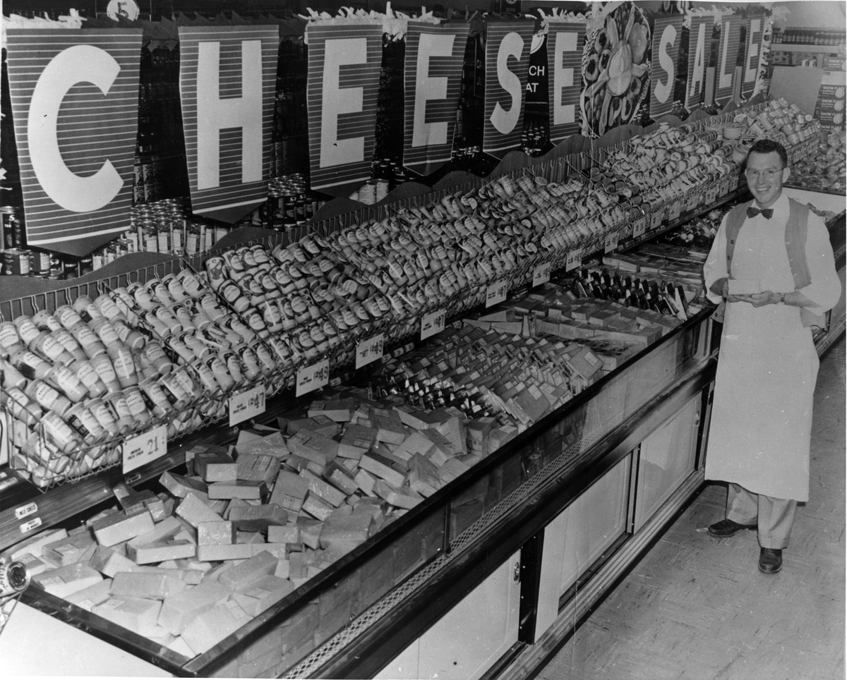 A sale at the cheese department, Albertson's supermarket, Seattle, Washington, 1955. Item 168284, Clerk File 226341 (Record Series 1802-01), Seattle Municipal Archives.